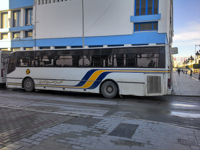 Private transport company in Tunisia